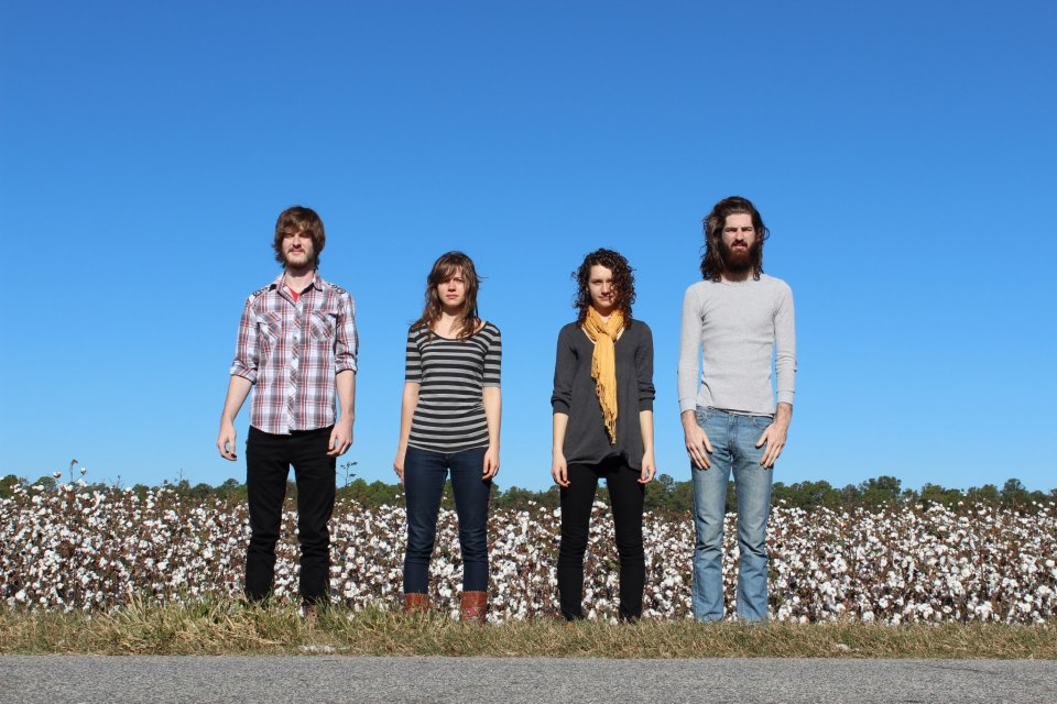 Band photo